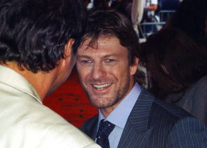 Sean Bean at the premiere of North Country, Toronto Film Festival 2005